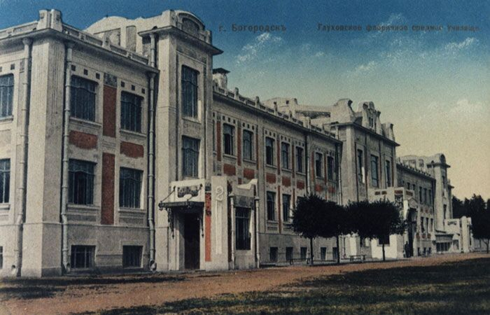 Bogorodsk (present-day Noginsk) in 1911. Postcard: Glukhov school.